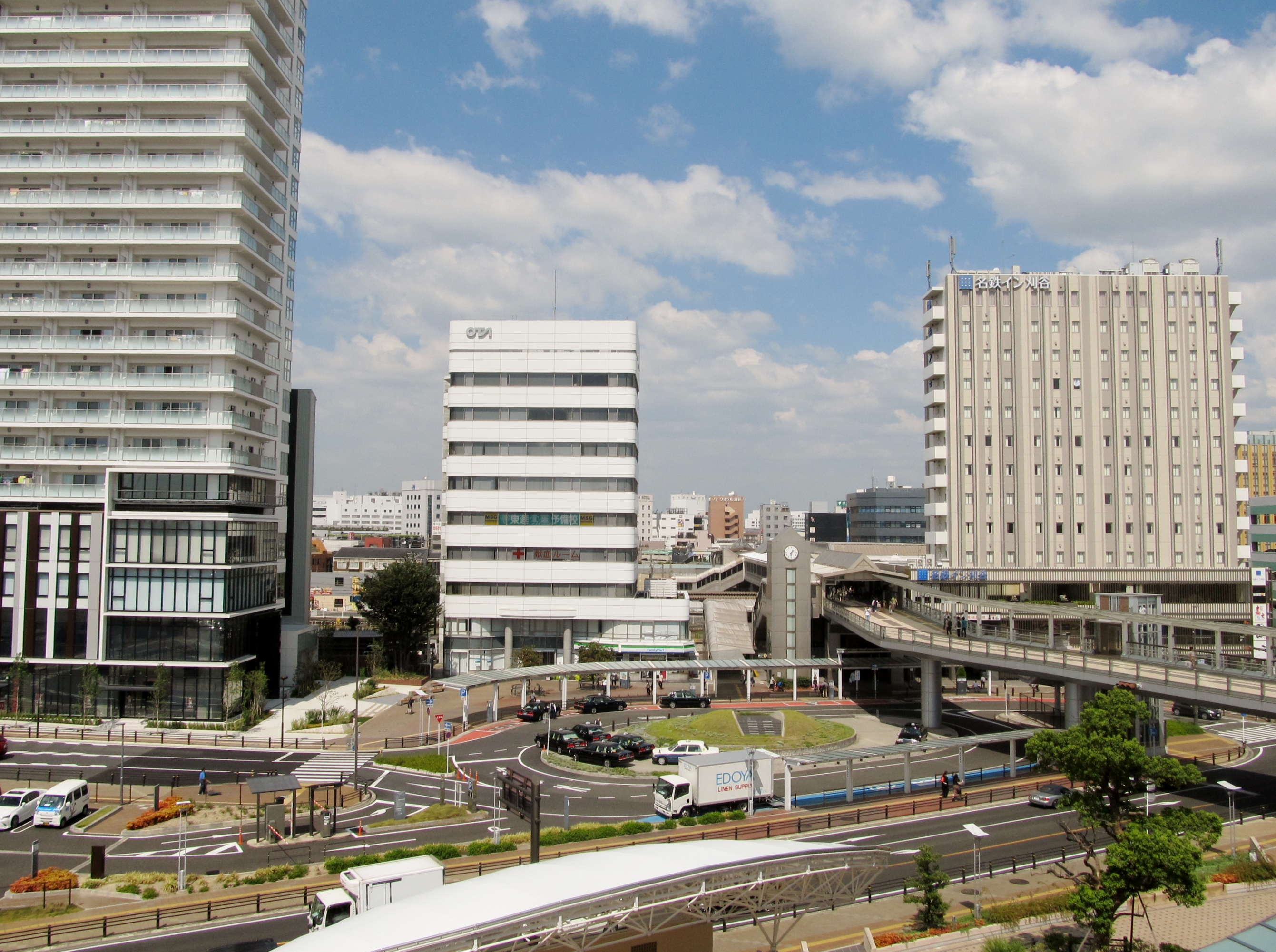 The south plaza in front of JR Central Kariya Station on the Tokaido Line